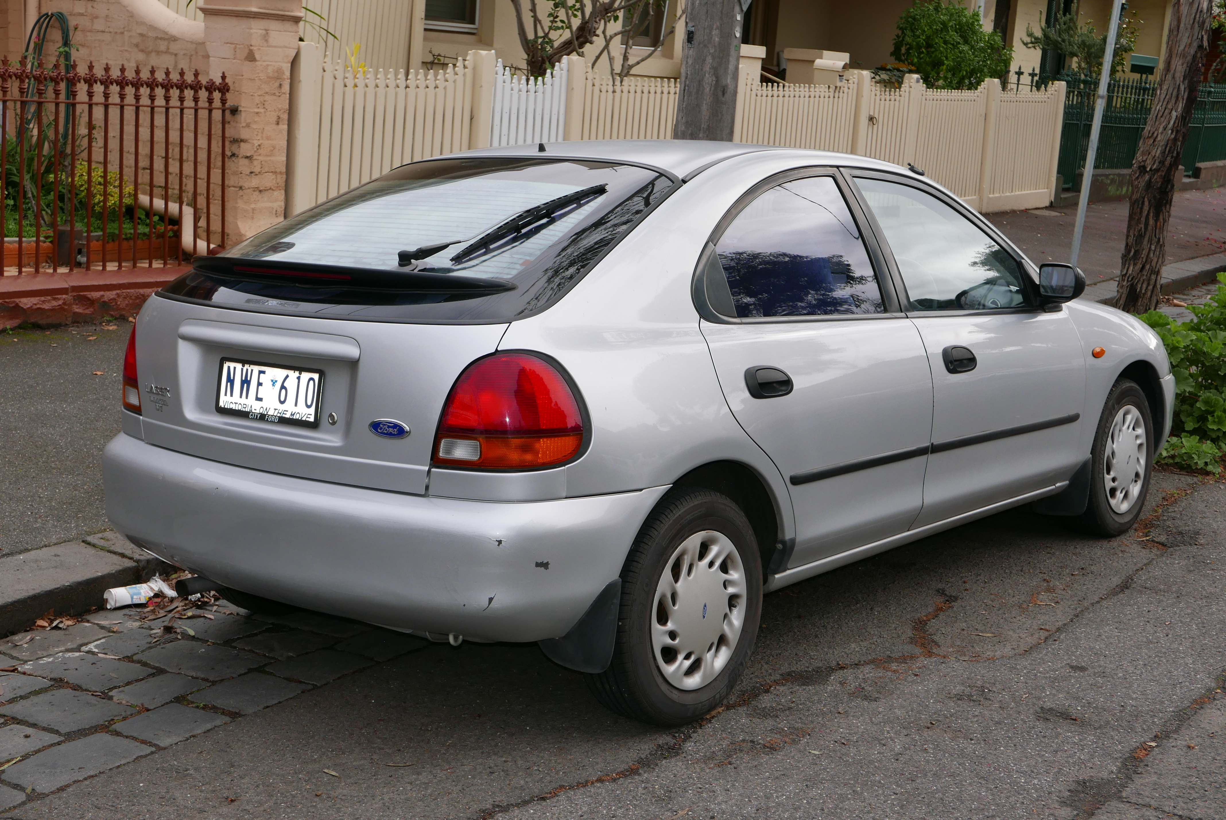 1995 Ford Laser (KJ) Liata LXi 5-door hatchback. Photographed in Carlton North, Victoria, Australia. Vehicle registration enquiry results Jurisdiction Victoria Registration NWE610 Chassis code JC0AAASGPMSU36086 Engine code BP980166 Compliance date 1995-11 Year of manufacture 1996 (not a typo)